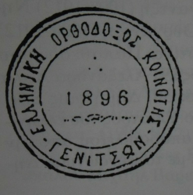 Enidzhe Vardar greek seal